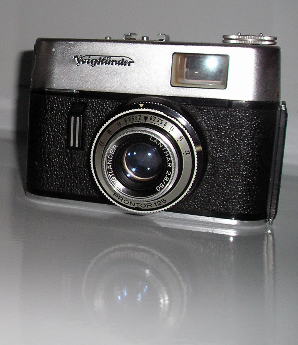 Voigtländer camera, Vitoret F, Lanthar 2.8/50, Prontor 125, Made in Germany